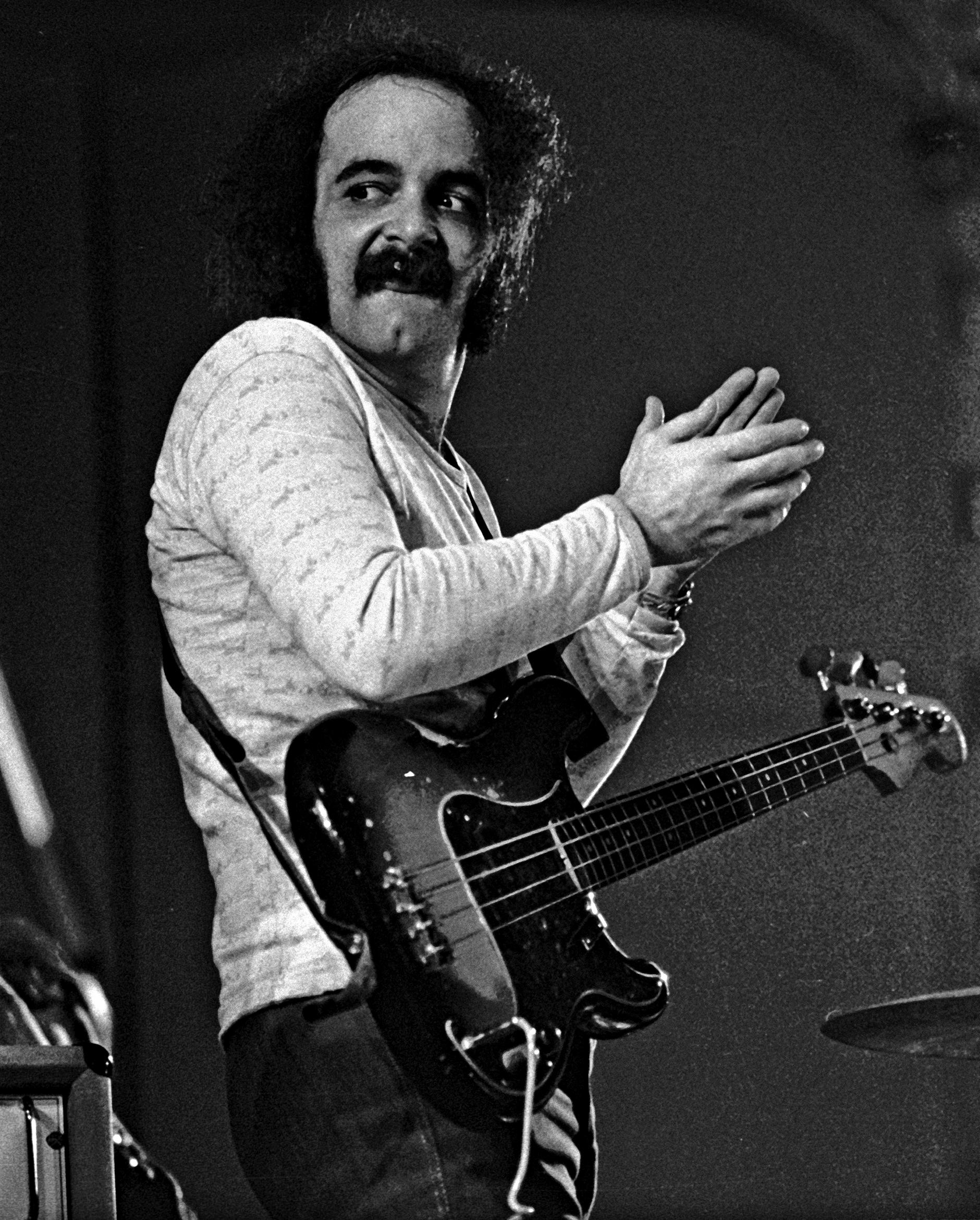 John Mayall with Sugarcane Harris and bassist Larry Taylor, Musikhalle Hamburg, 1971 besucht auch meine Homepage